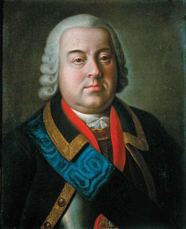 Nikita Yuryevich Troubetskoy russian Field Marchall